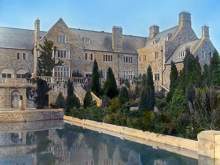 ["Killenworth," George Dupont Pratt house, Glen Cove, New York. View to house from swimming pool]. Crop of File:("Killenworth," George Dupont Pratt house, Glen Cove, New York. (LOC) (7221372476).jpg.